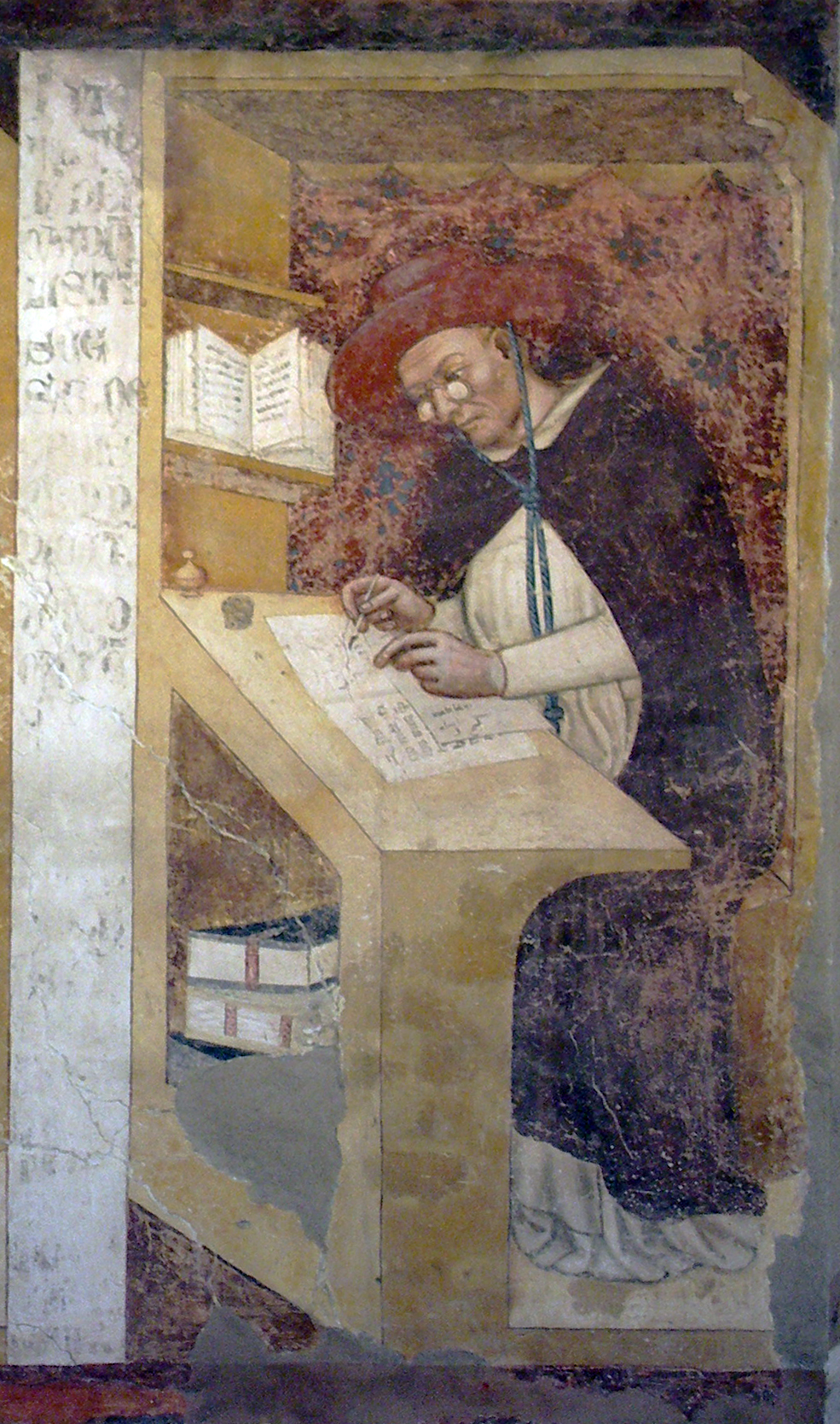 One of the first pictures of a person wearing glasses